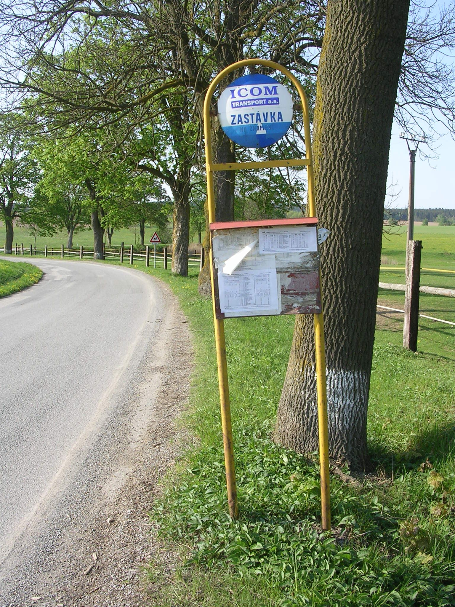 Žirovnice, Vysočina Region, the Czech Republic.